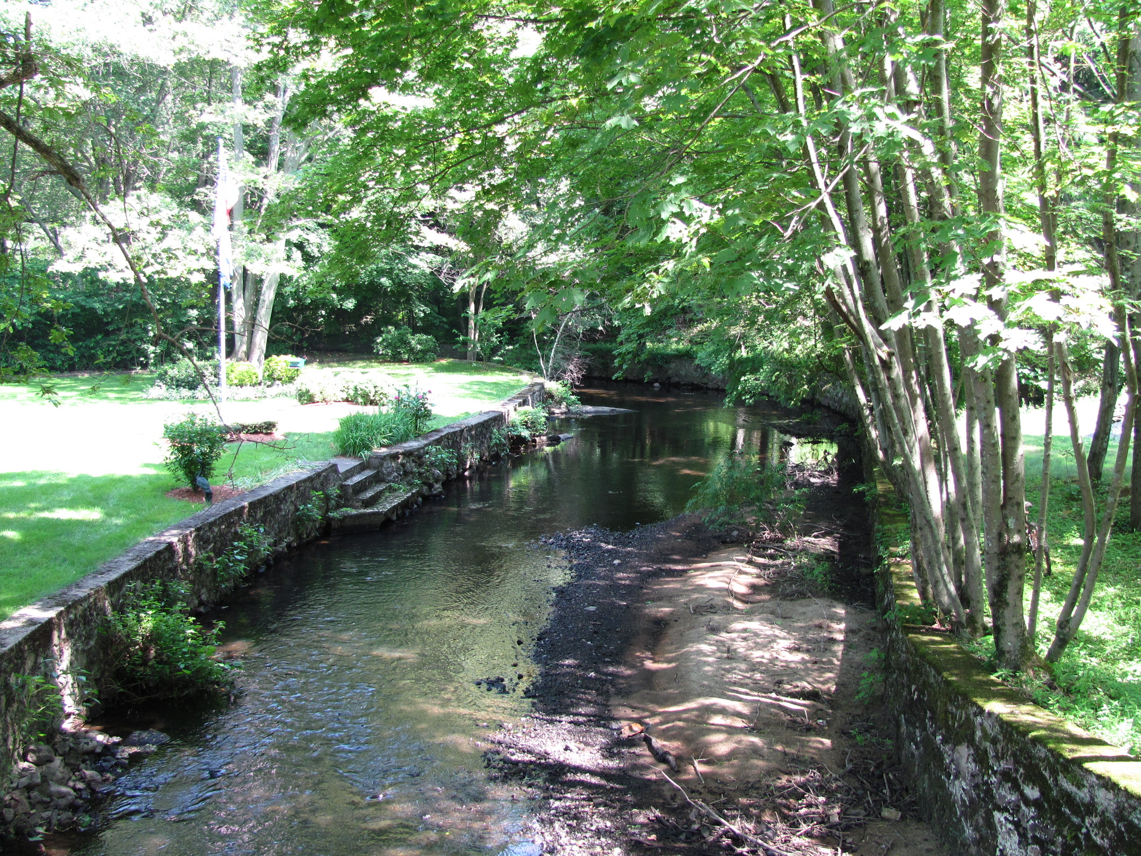 Ten Mile River, Attleborough Falls Massachusetts